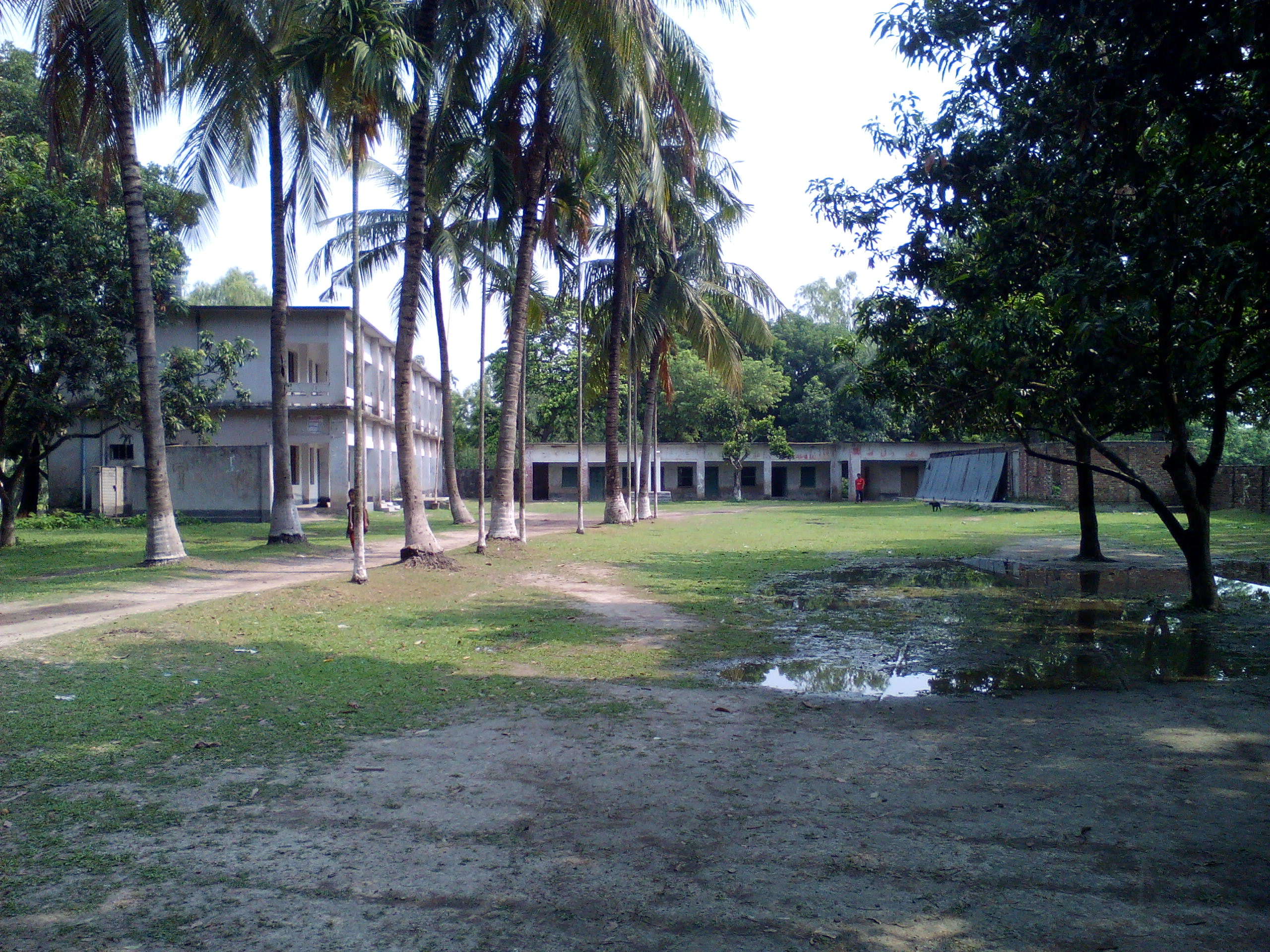 Ashraf Zindani High School Main Campus